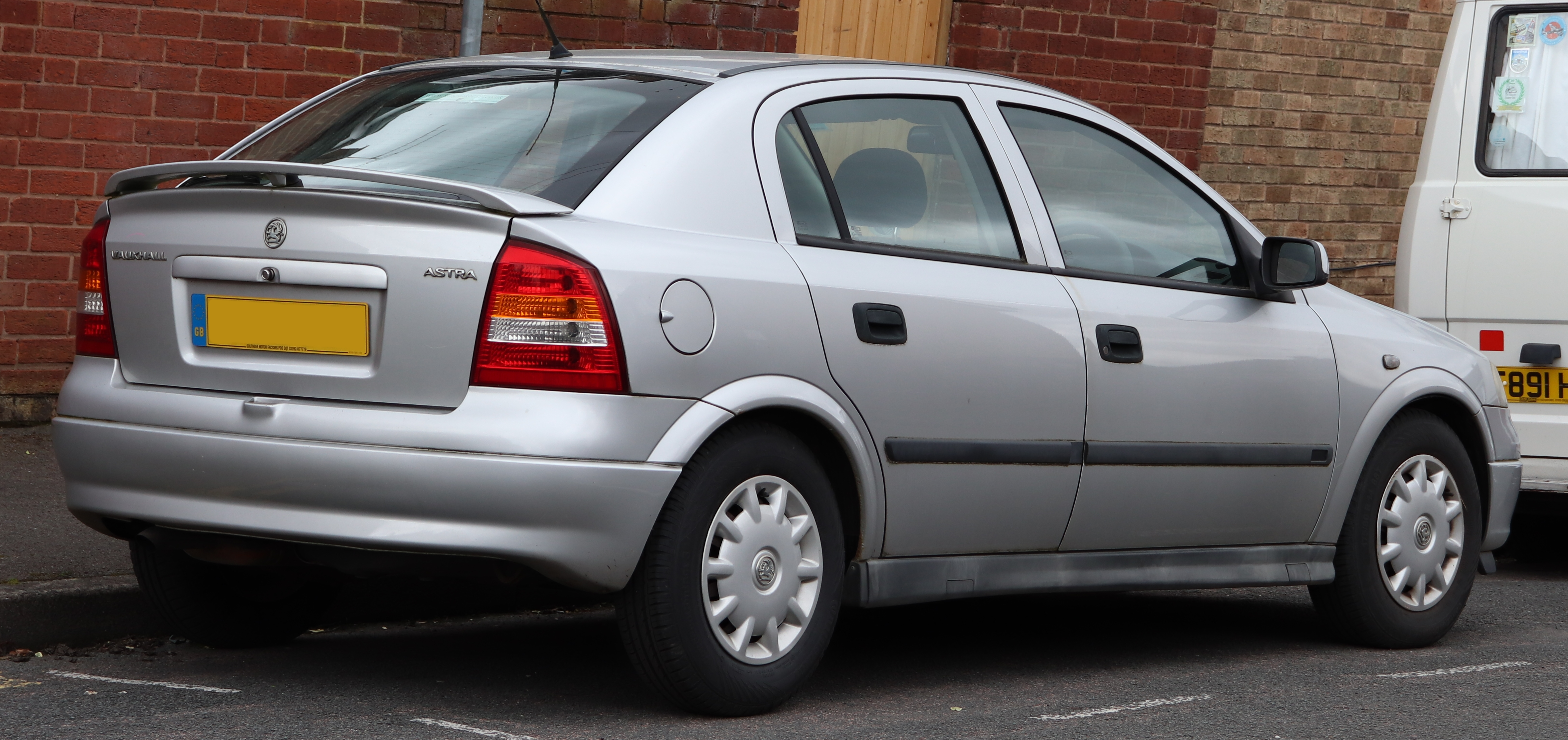 2004 Vauxhall Astra LS DTi Eco 16V 1.7 Rear Taken in Warwick